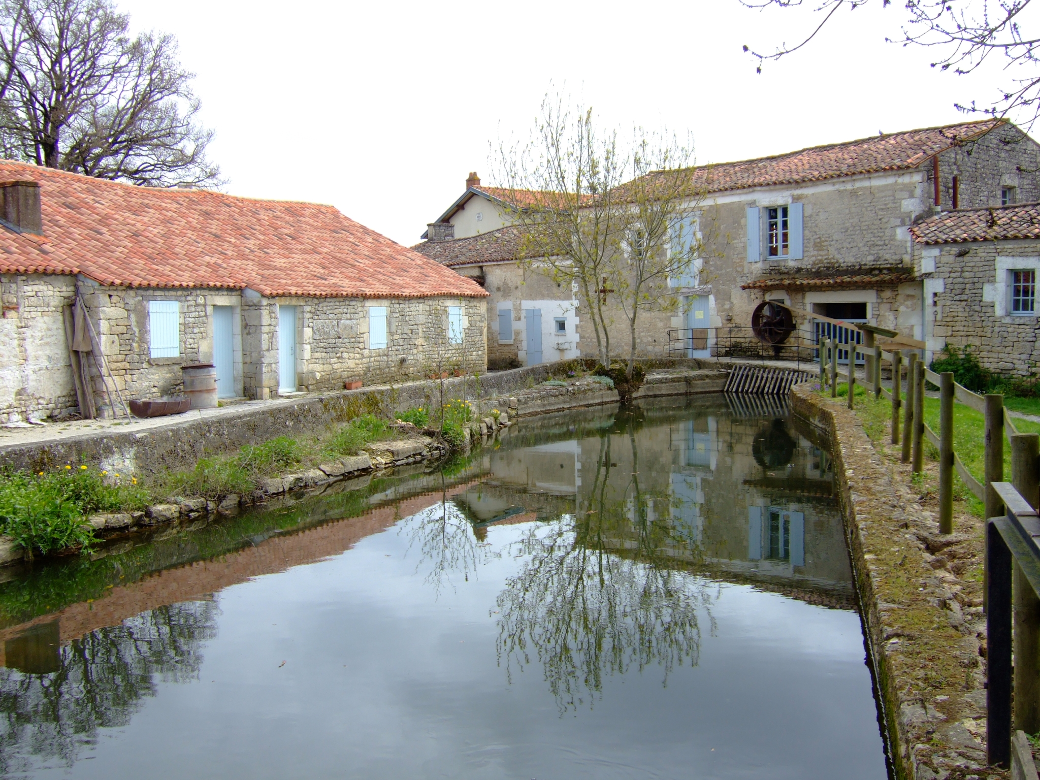 Nieul sur l'Autize, Vendée, France. Water mill (in fact working now with an oil engine. Today live museum of the miller work